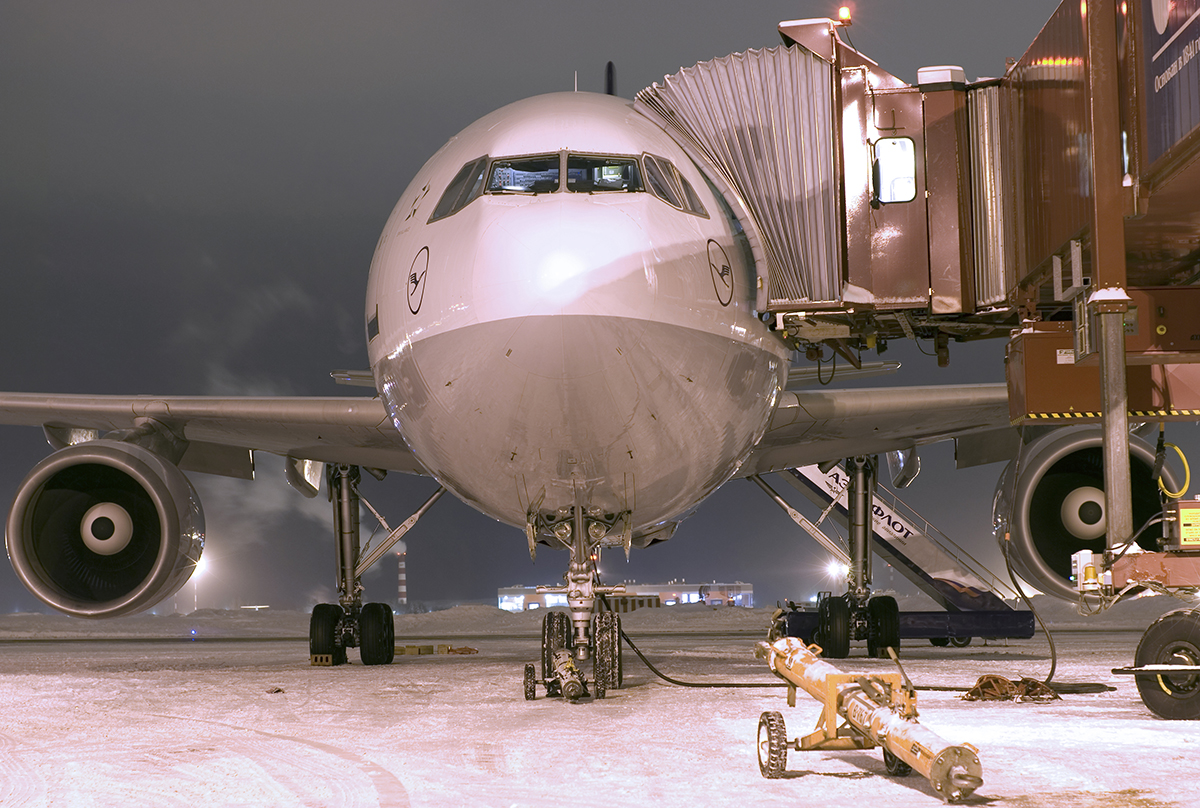 Lufthansa Airbus A300B4-603